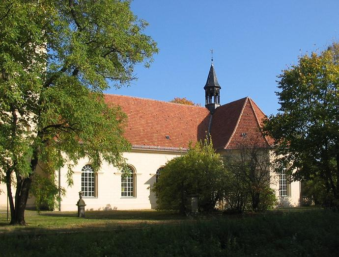 Kreuzkirche, built in 1697, in the town Königs Wusterhausen in the district Dahme-Spreewald, state Brandenburg, Germany.